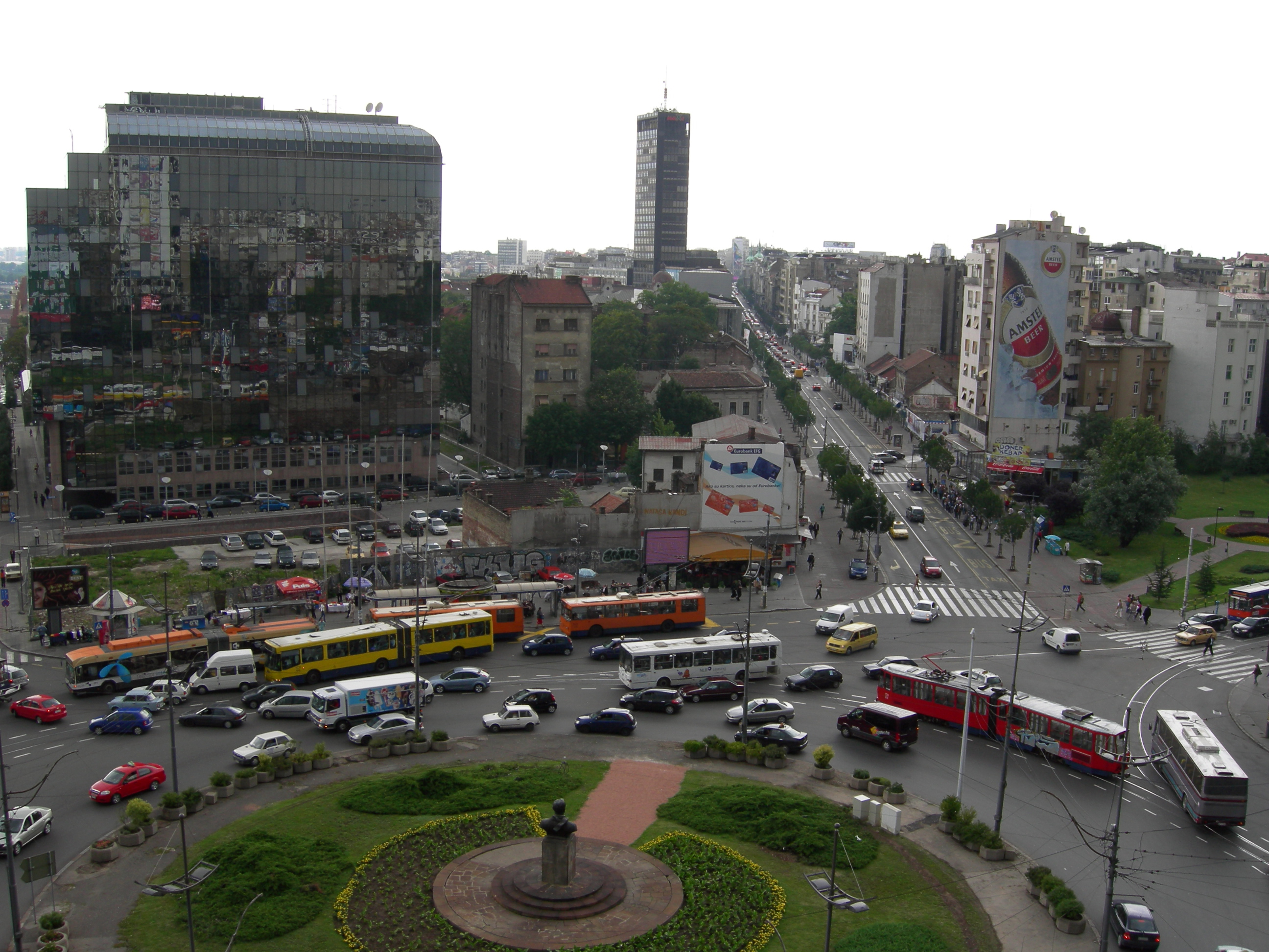 "Slavija" square in Belgrade